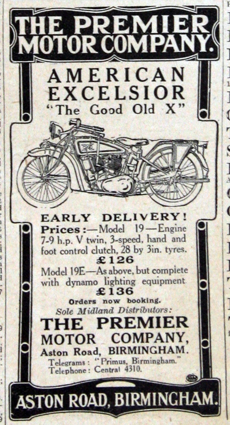 1919 Advertisement offering the American Excelsior motorcycle by importers,Premier Motor Co. of Birmingham American Excelsior motorcycle